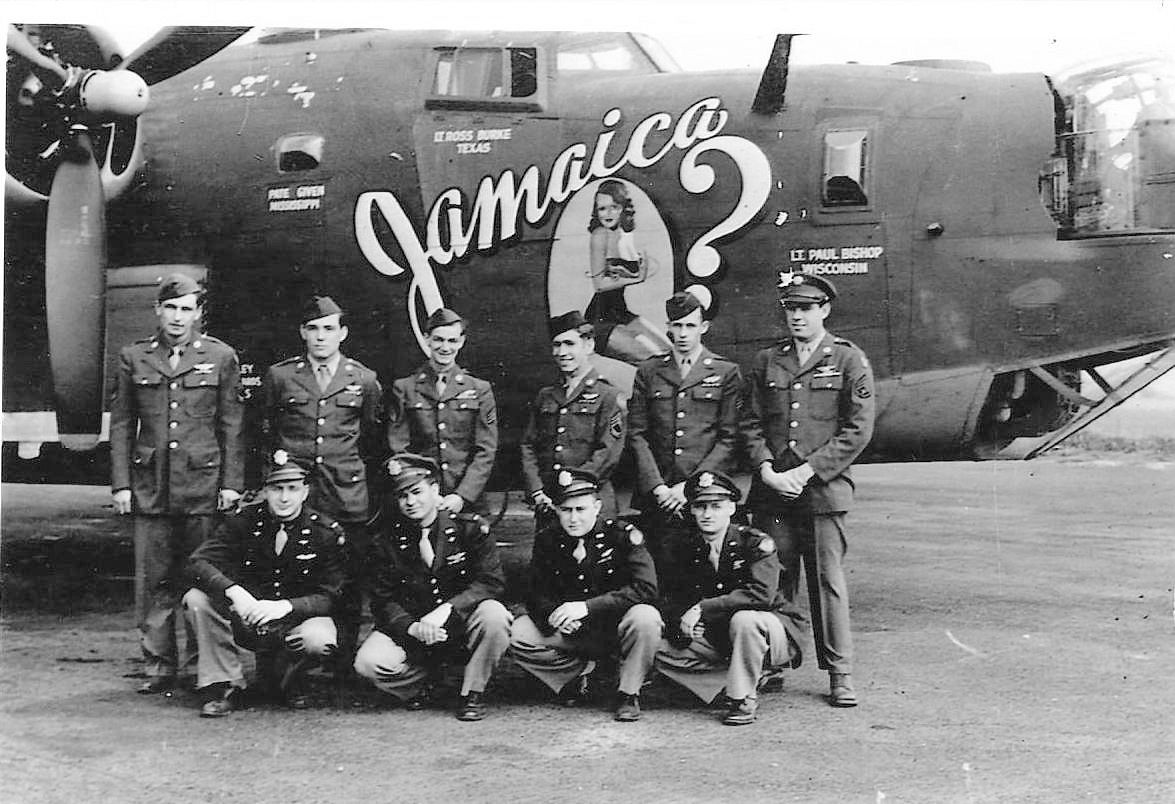 Crew #503 Joseph L. Booth Crew 466th BG - 785th BS Standing Left to Right: Charles Herbst (FE), Joseph Campbell (WG), George Corrar (BTG), Pate E. Given (R/O), Clarence W. Duvall (TG), Waddie W. Doolittle (WG) Kneeling Left to Right: Joseph L. Booth (P), Ross Burke (CP), Peter B. Bishop (N), Cleo Beggs (B) This crew flew 18 missions with the 466th BG before being transferred to the 389th BG for six missions, the 489th BG for three missions and then finishing up with the 492nd BG for the final three missions.